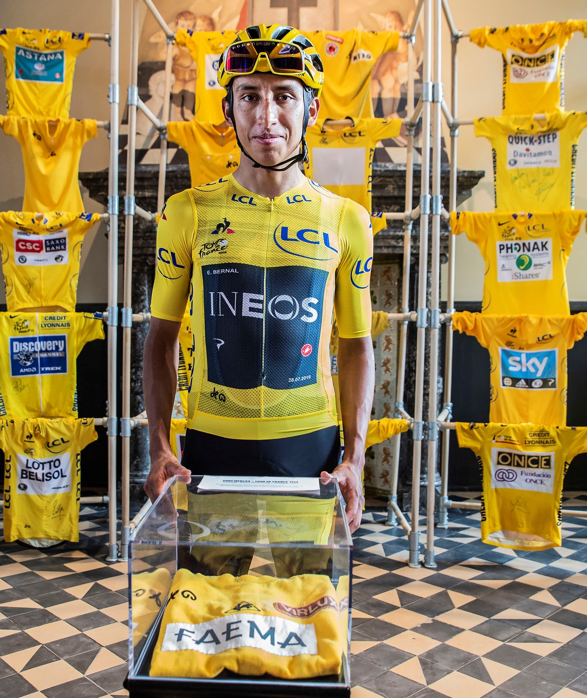 Egan Bernal, winner of the Tour de France 2019, poses with his yellow jersey in KOERS. Museum of Cycle Racing in Roeselare, Belgium, with the yellow jersey of Eddy Merckx and others yellow yerseys in the exhibition.